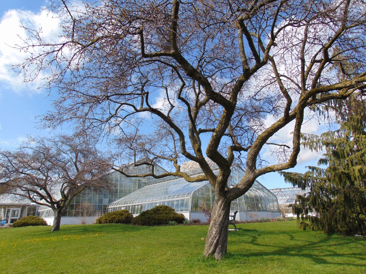 Crabapple tree with conservatory and greenhouses behindPlease respect author's moral rights by not changing this description or the image title.